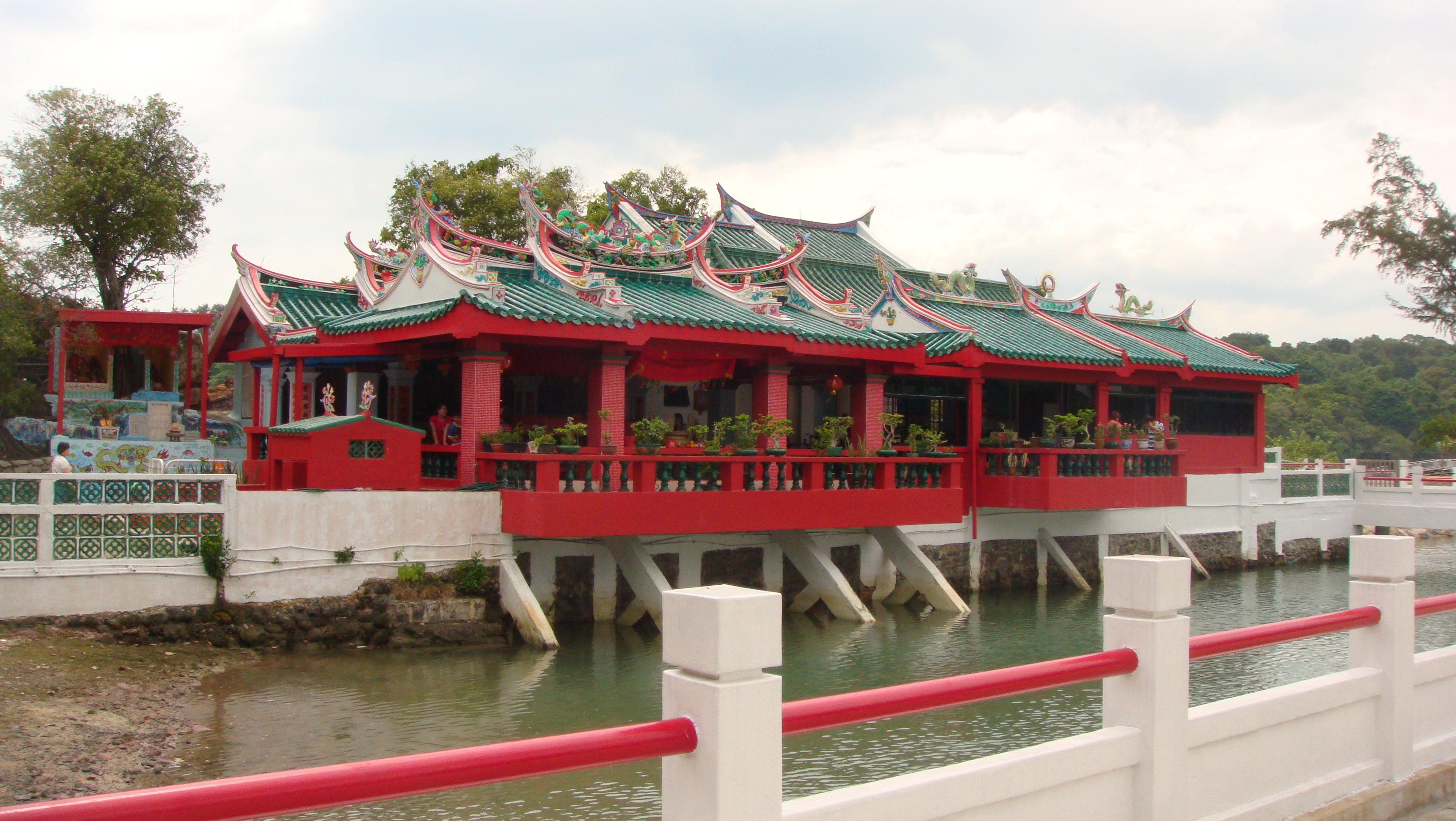 Da Bogong Temple (Chineese) on Kusu Island, Singapore